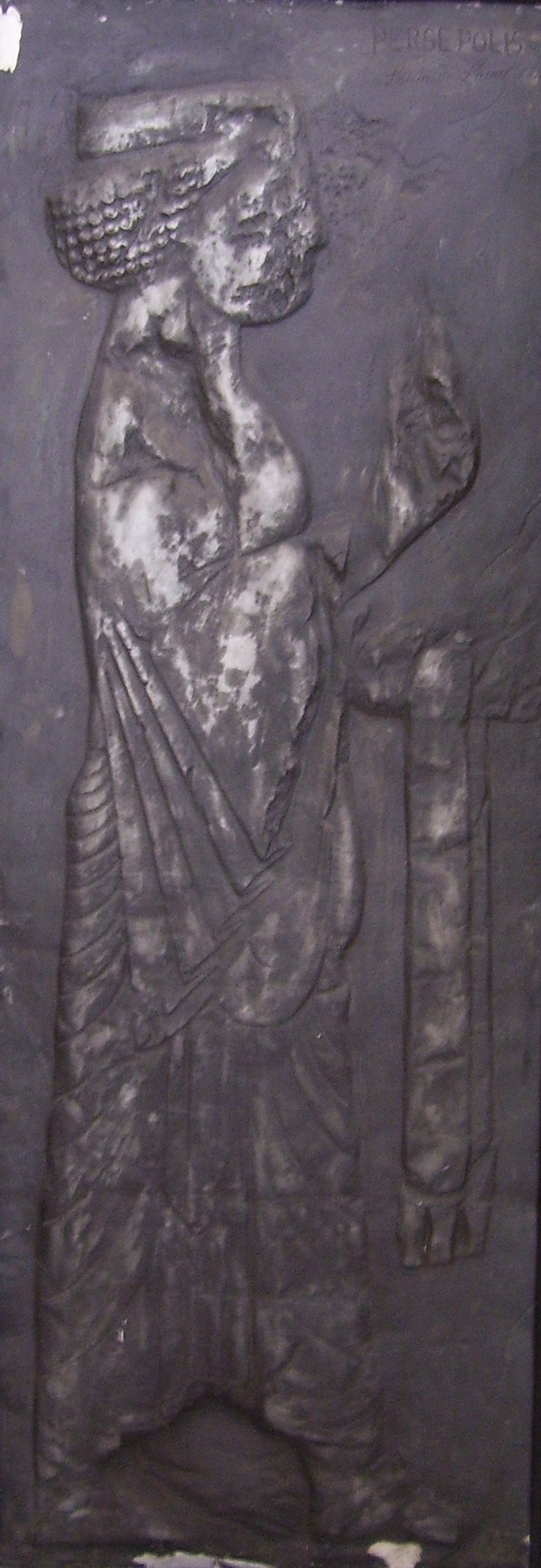 Lottinoplastie of a relief on the Tatchara in Persepolis. Museum of Bernay (Eure)